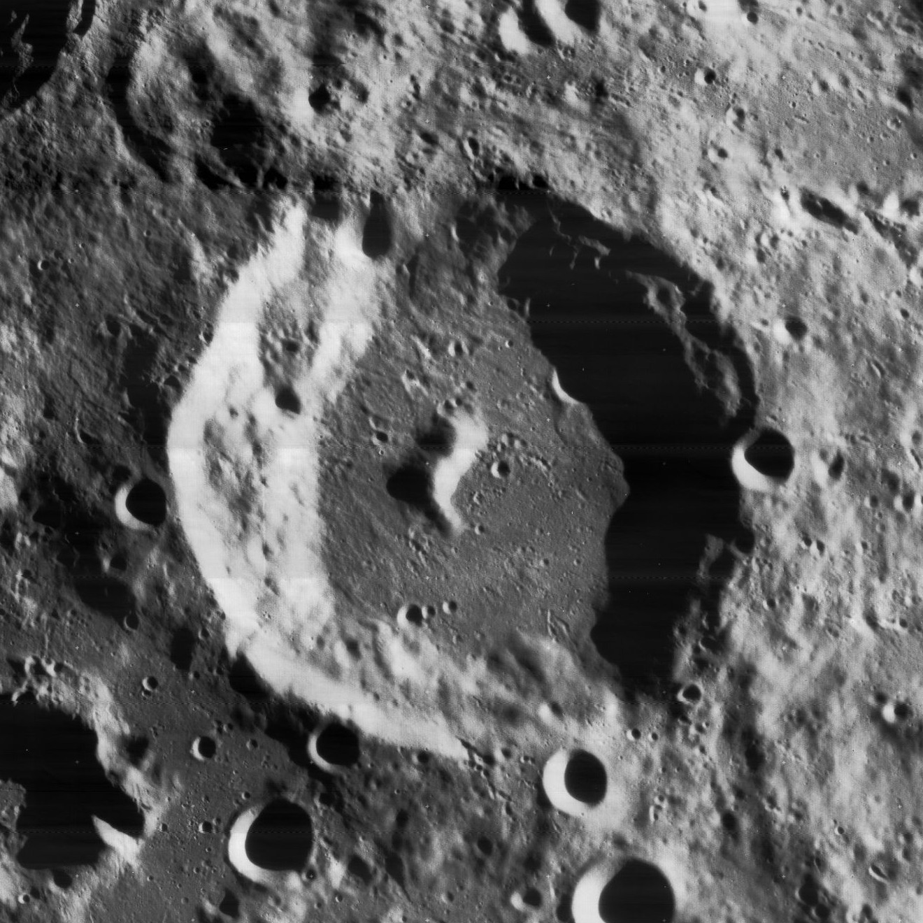 Slightly oblique view of Bettinus, on the moon.